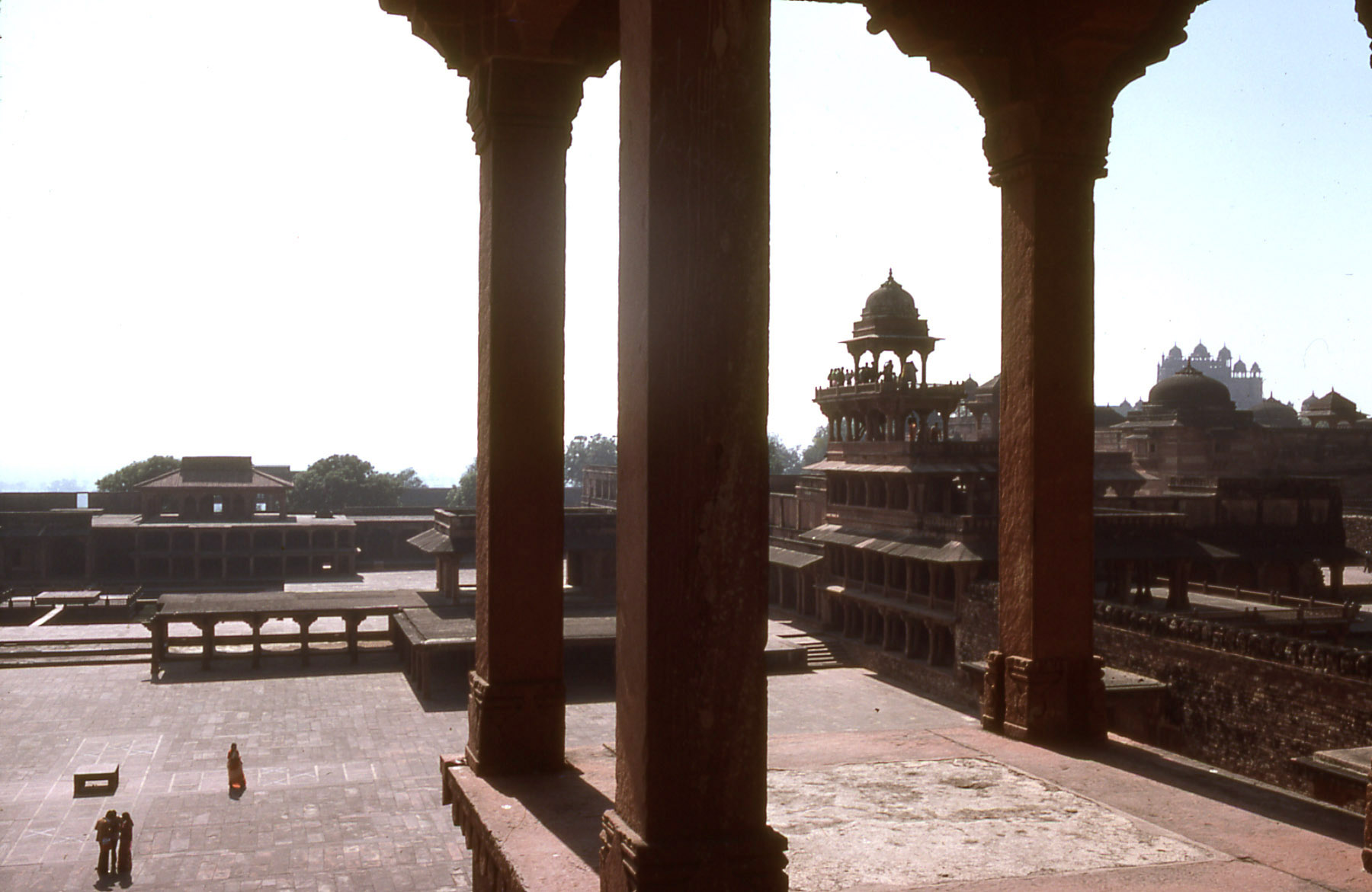 An area of Fathepur Sikri, near Agra, India in December 1976